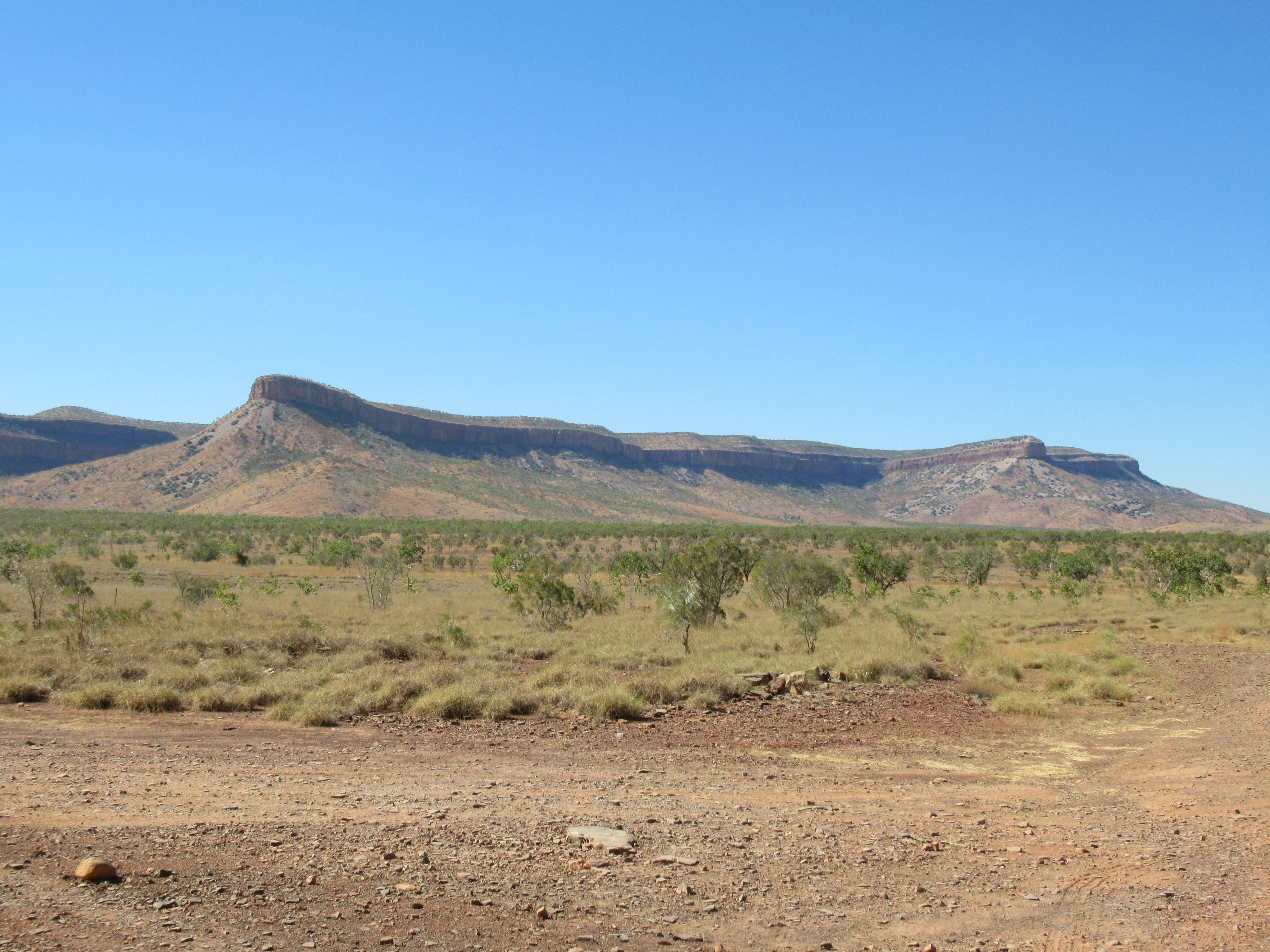 Cockburn Range, Kimberley, Western Australia, Australia. Near Wyndham. A mesa, 350 square kilometers in area. The Cockburn Sandstone is Lower Proterozoic in age.